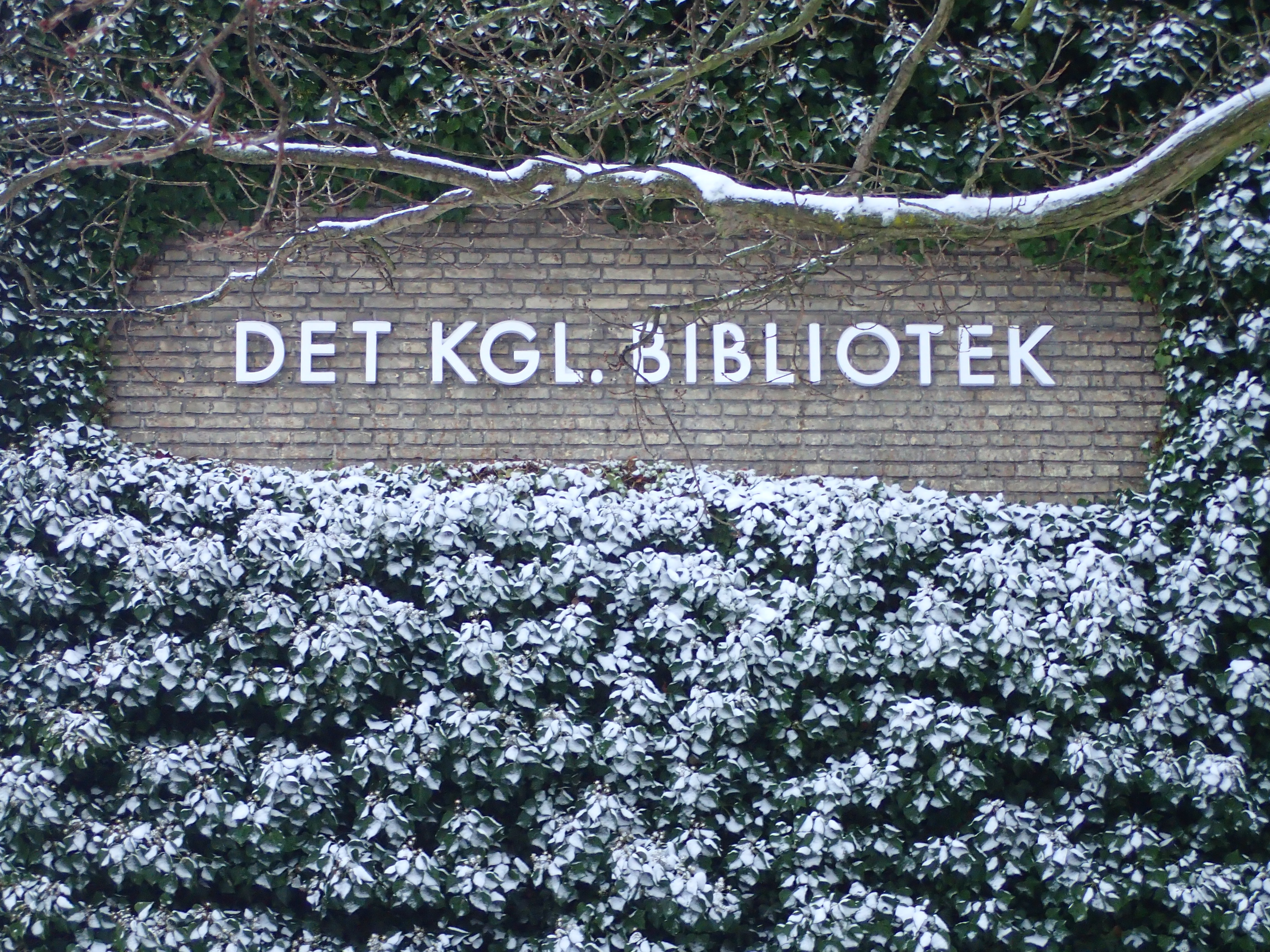 Bogtårnet